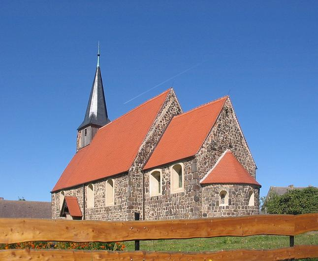 Fieldstone church in Lobbese, built probably in the end of the 12th / beginning of the 13th century. The village Lobbese is a part of the town Treuenbrietzen in the district Potsdam-Mittelmark of the German state Brandenburg in the region and hill chain Fläming.